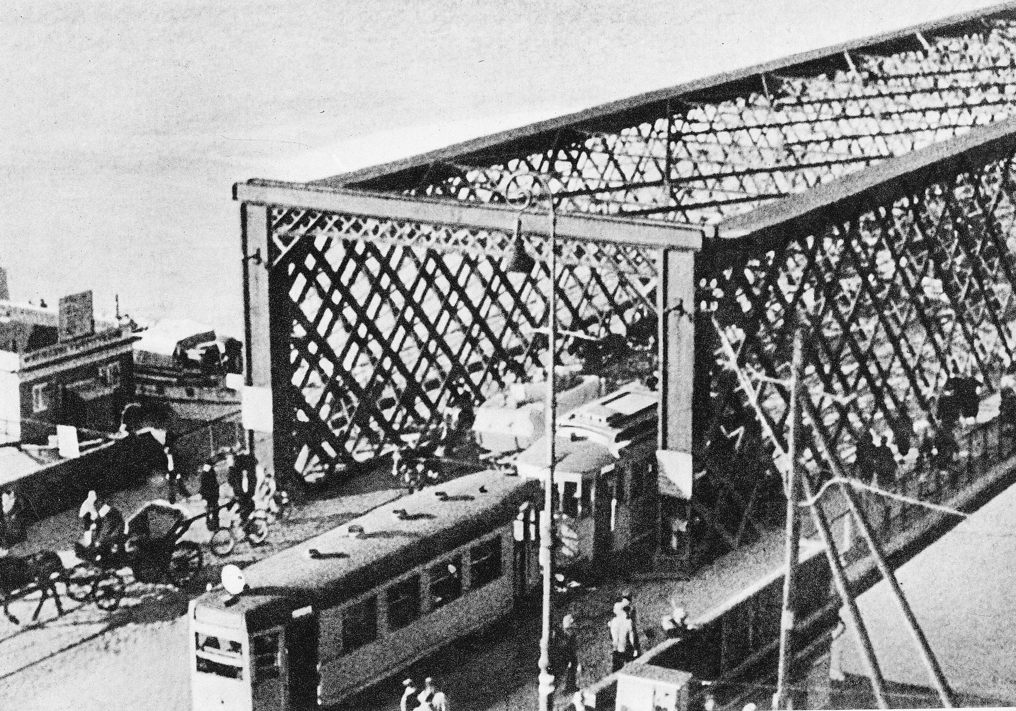 Entry to Kierbedź Bridge in Warsaw